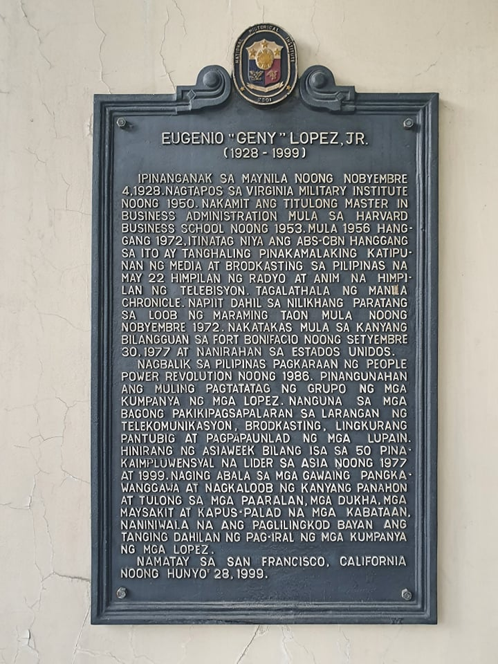 Eugenio Geny Lopez Jr NHCP Historical Marker